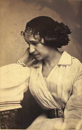 Johanne Luise Heiberg (1812-1890), Danish actress